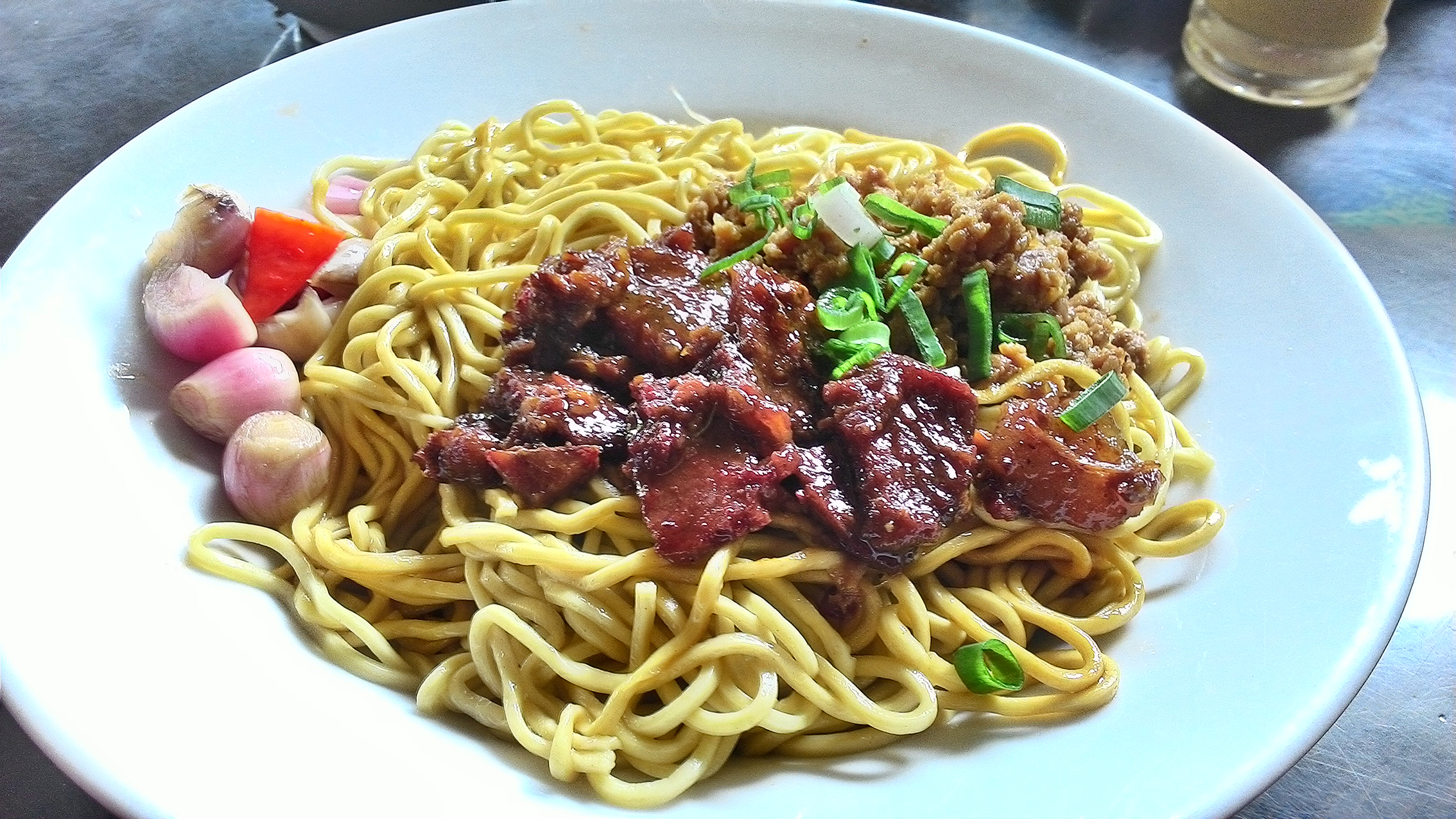 Bakmi (pork noodle) served in Aloi restaurant in Grogol, West Jakarta, Indonesia. Chinese Indonesian dish.